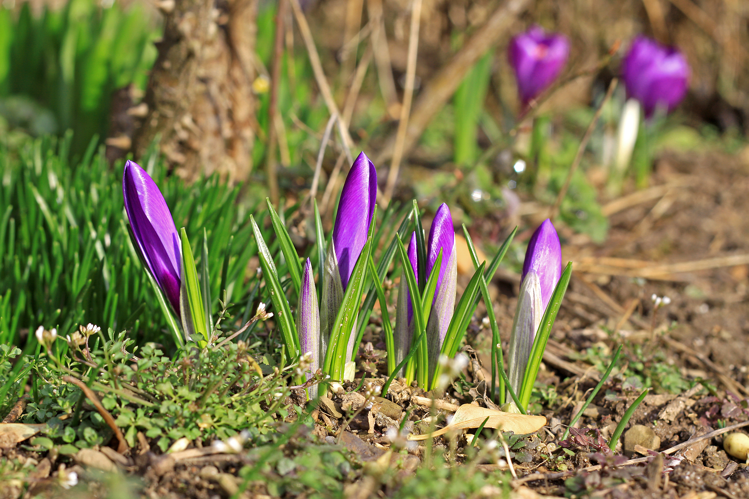 purple crocuses with closed bloom